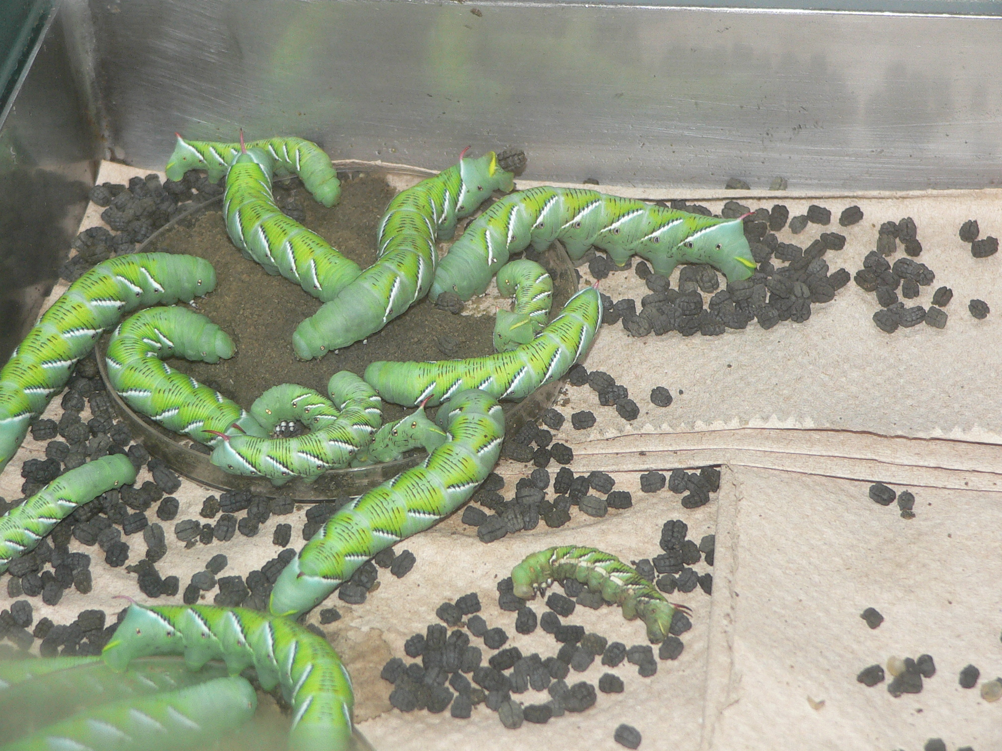 Manduca sexta Pictures taken by myself at the Audubon Insectarium